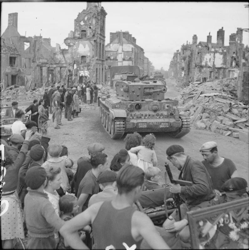 The British Army in the Normandy Campaign 1944 Cromwell tanks of 2nd Northamptonshire Yeomanry, 11th Armoured Division, passing through Flers, 17 August 1944.